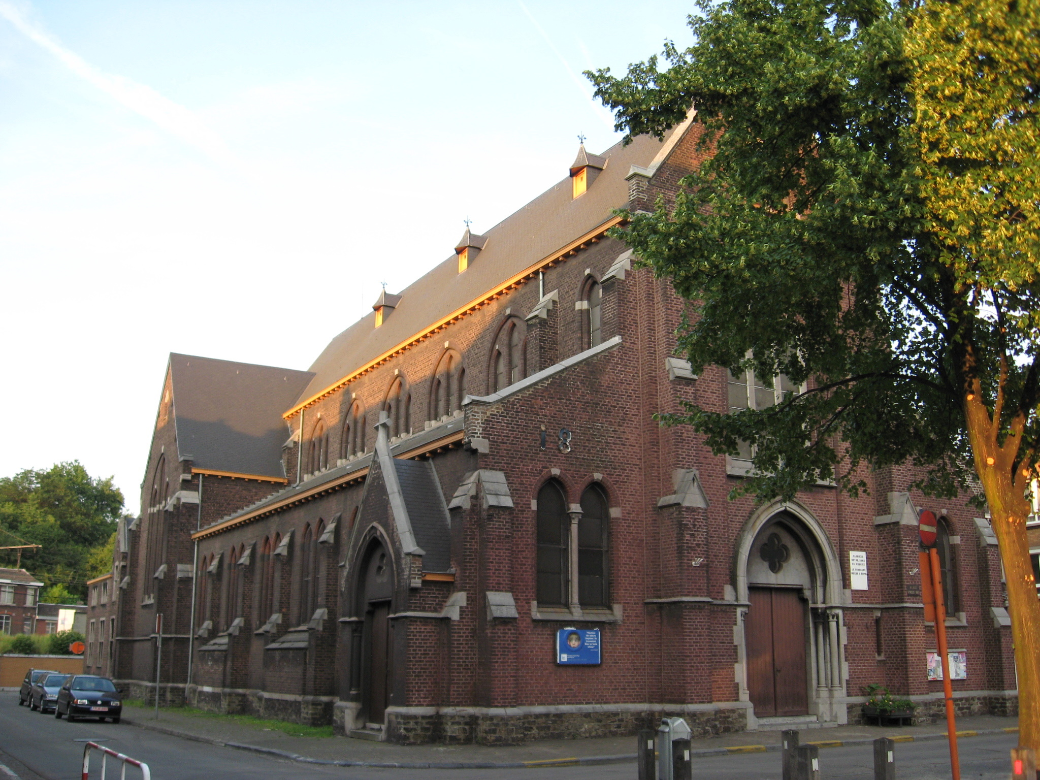 Church of Our Lady of the Rosary in Sclessin, Liège, Liège, Belgium.